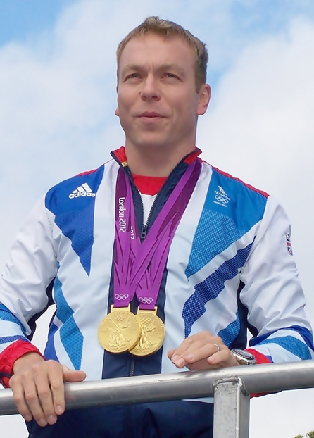 Scottish athletes from Team GB London 2012 Olympics and Paralympics gather at Kelvingrove Museum in Glasgow for the Homecoming Parade to George Square